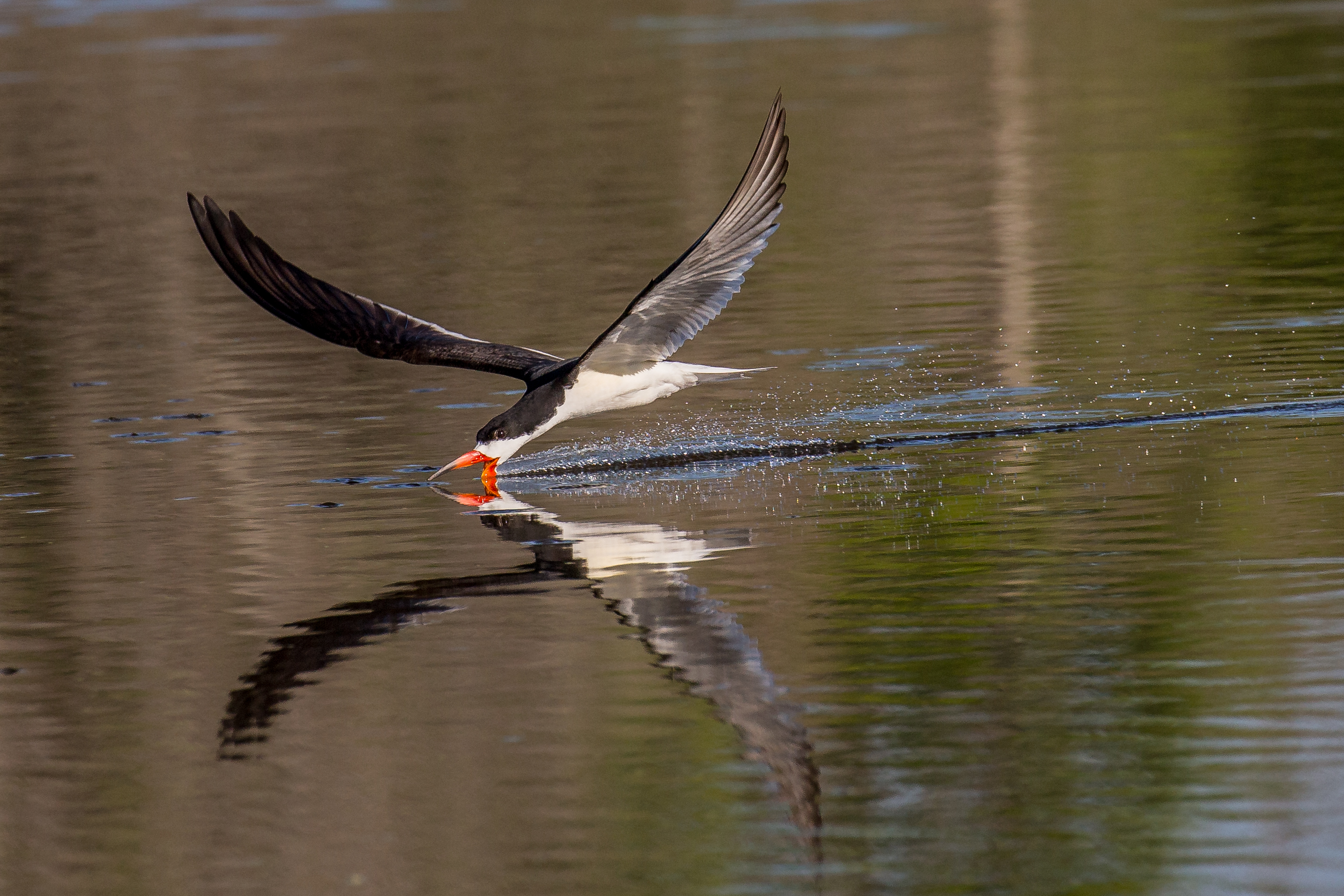 Last of my skimming shots for now. This Black Skimmer was photographed at Eagle Lakes Park, Naples, Florida.